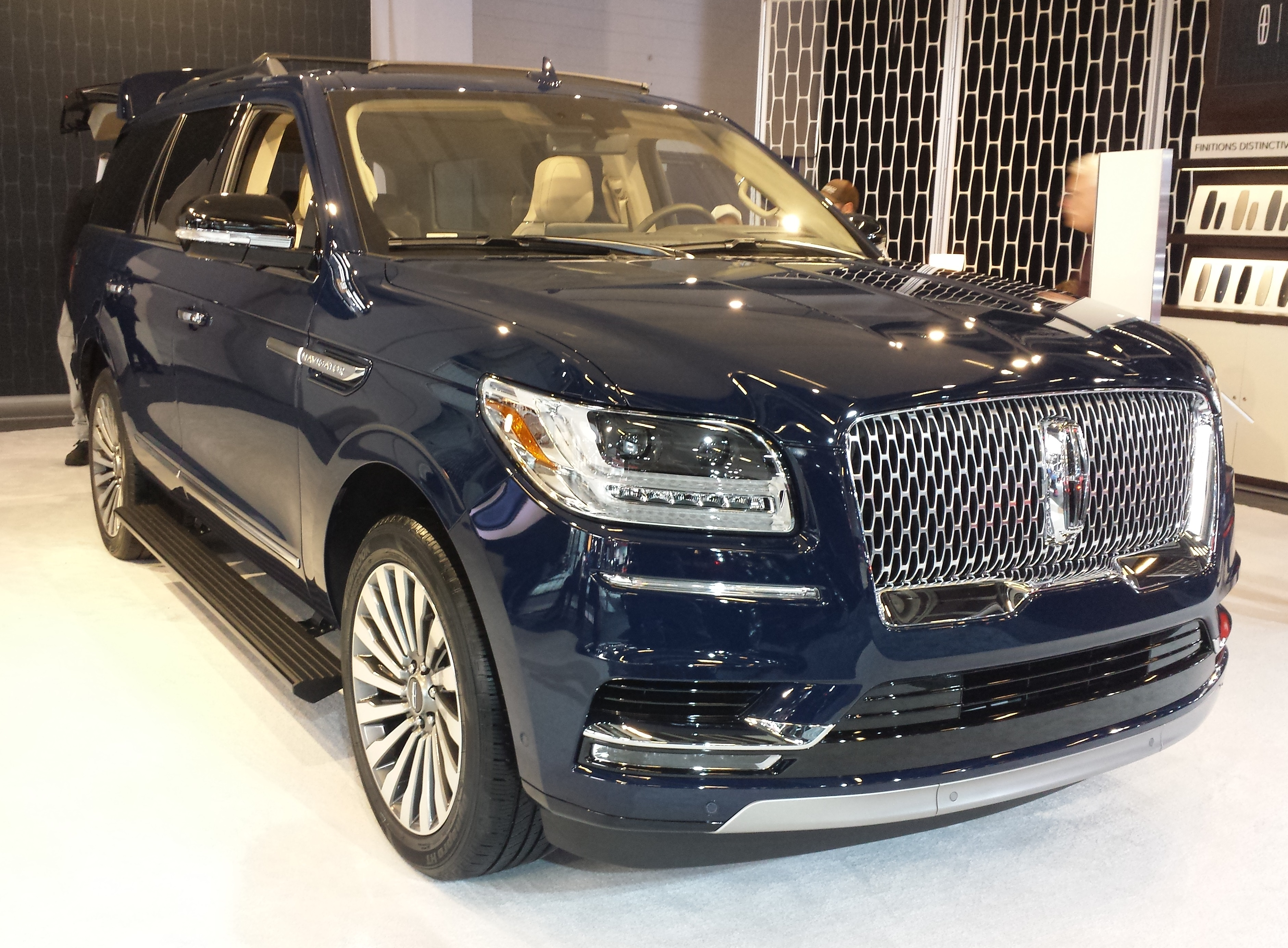 2018 Lincoln Navigator photographed in Montréal , Québec , Canada at the 2018 Montréal International Auto Show.